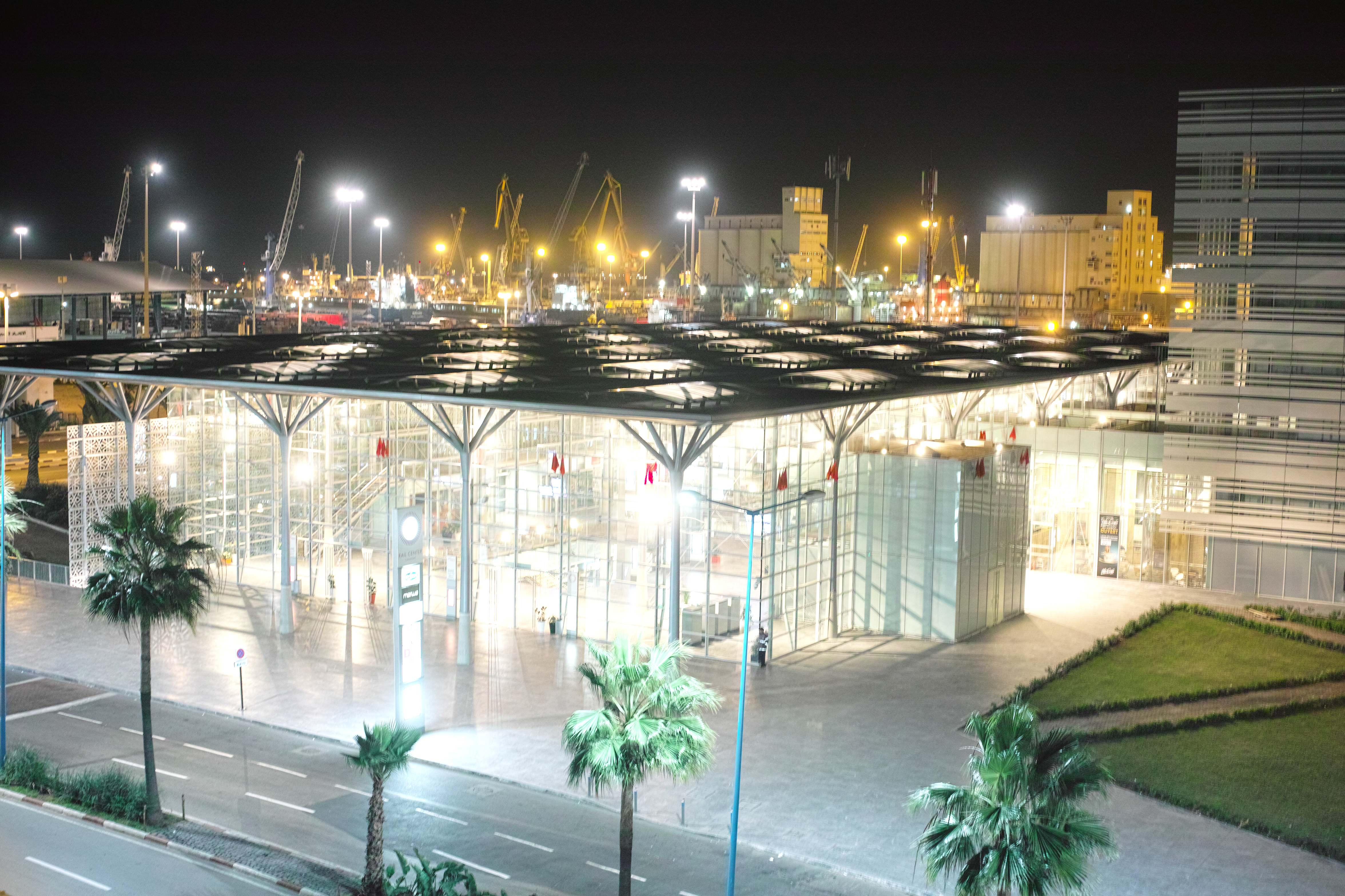 Casablanca Train Station during night.